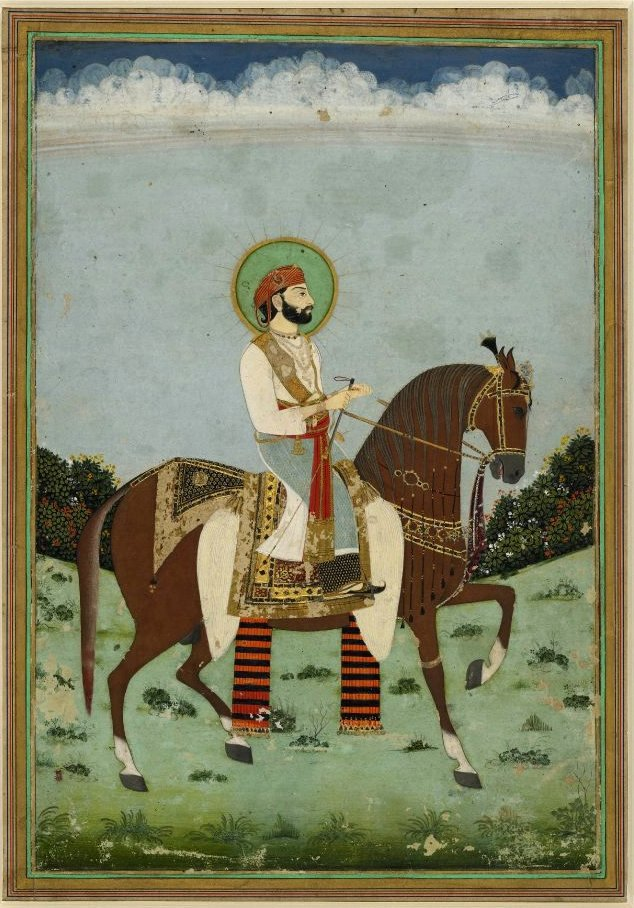 Maharaja Sawai Jai Singh II ca 1725 Jaipur. British Museum